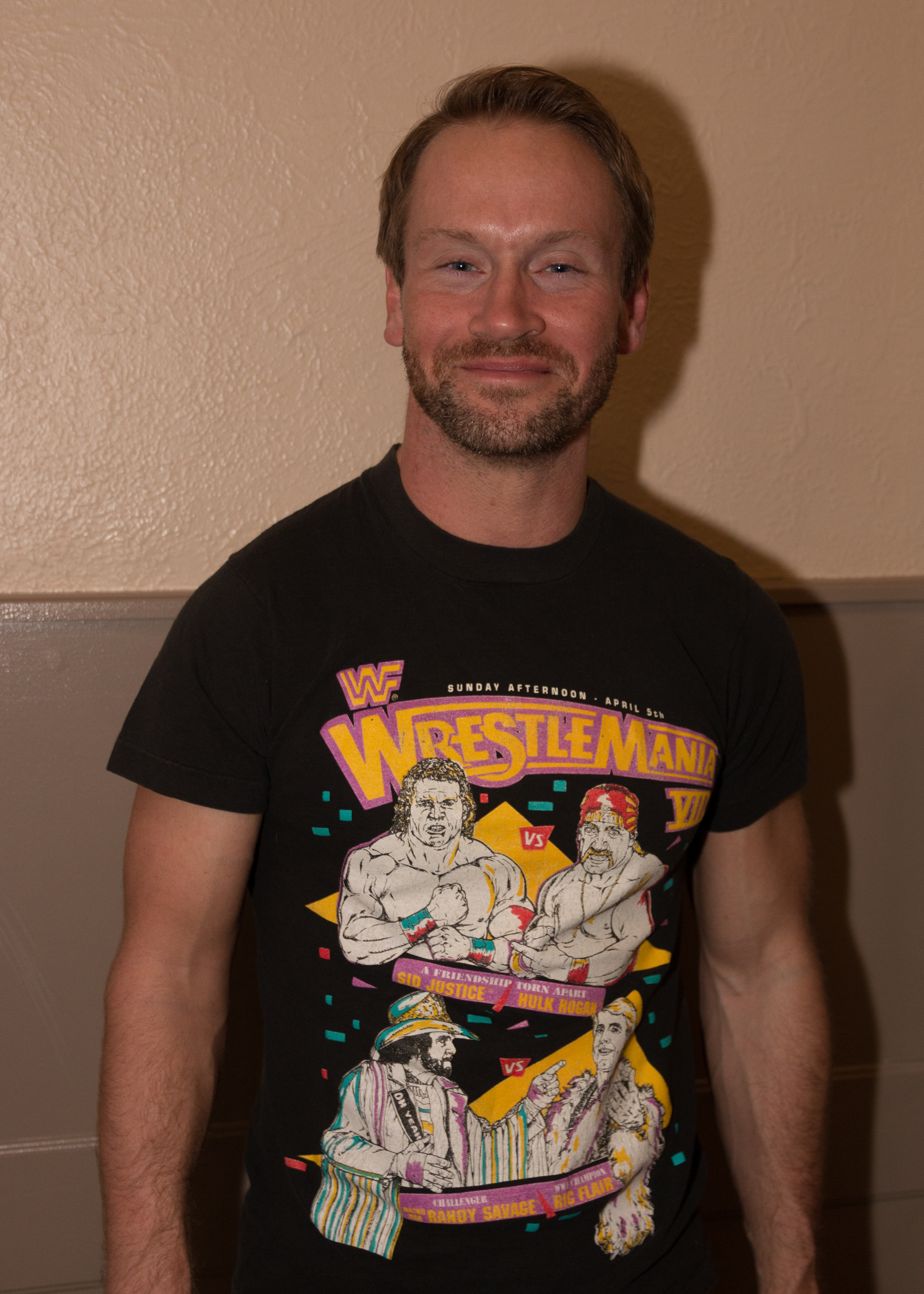 Independent wrestler Gregory iron posing at intermission during an Alpha-1 show in Oshawa, ON